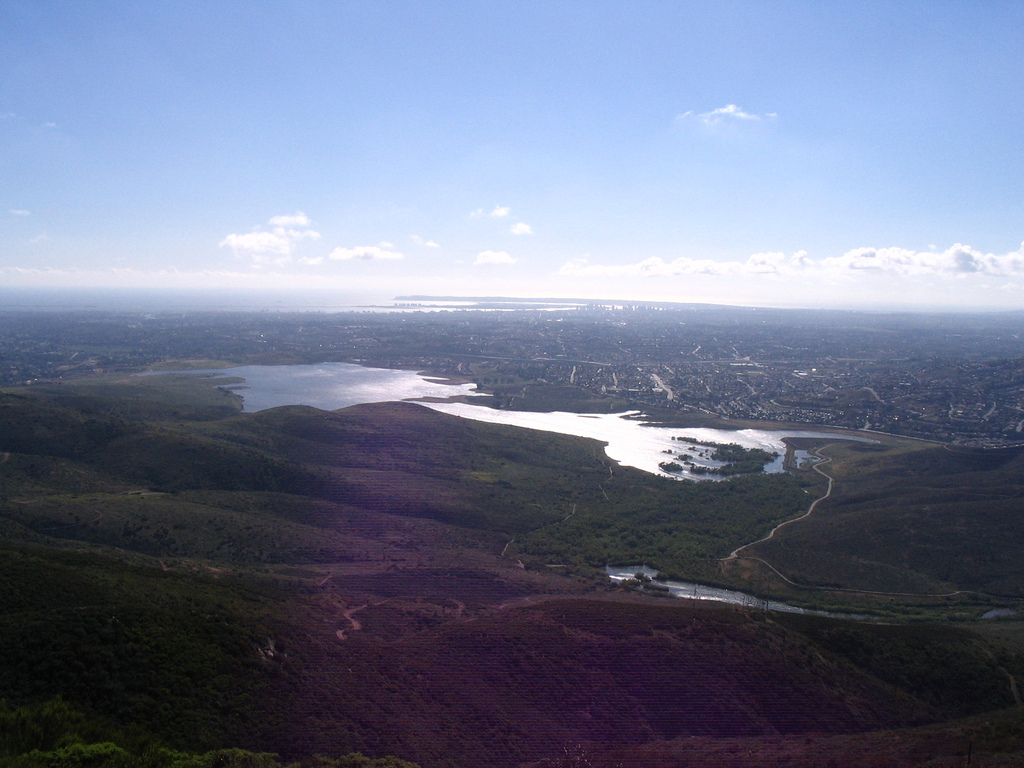 The City of San Diego covers the horizon.